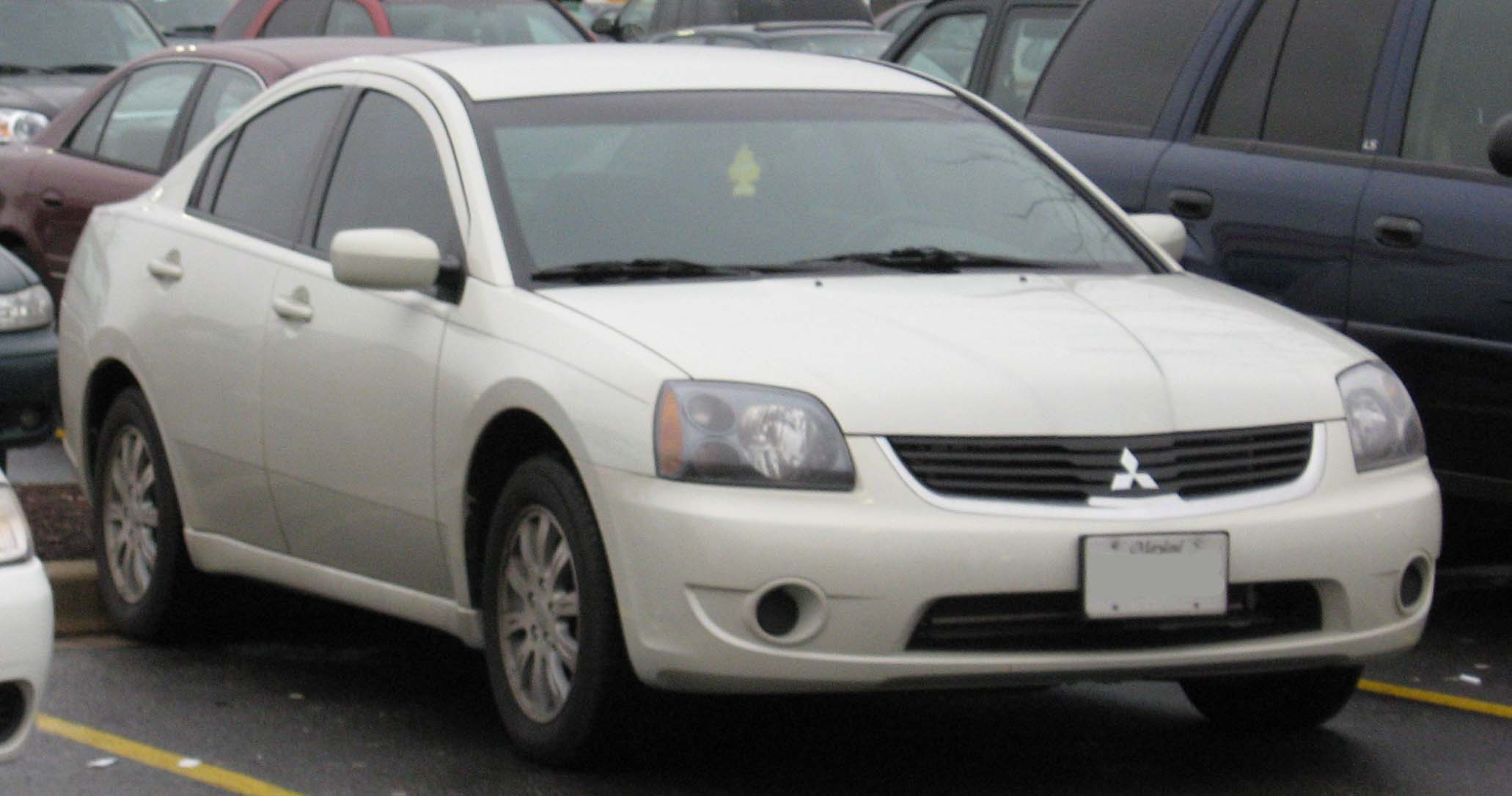 2007 Mitsubishi Galant photographed in USA.